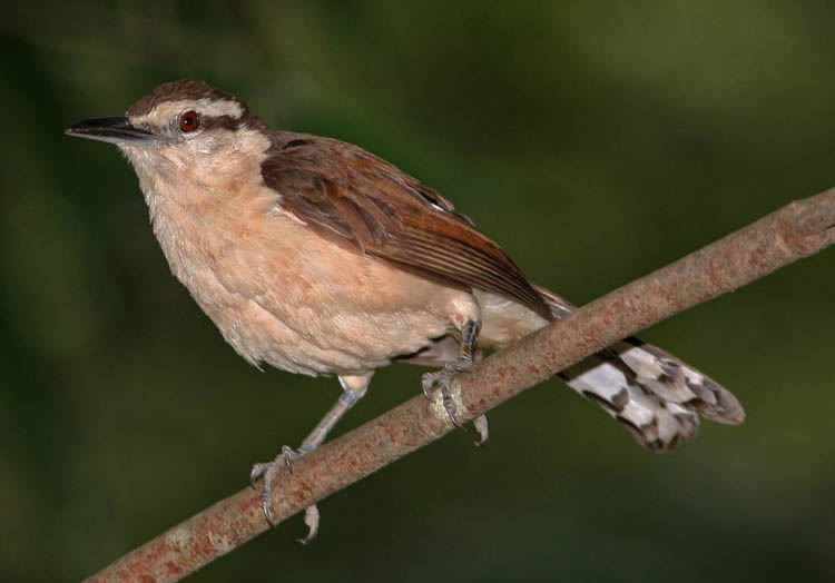 Bicolored Wren, shot in Barquisimeto, Venezuela